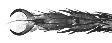 Micrograph of house-fly leg , (monochrome). Note: particles of debris have stuck to the pulvilli (between the claws).